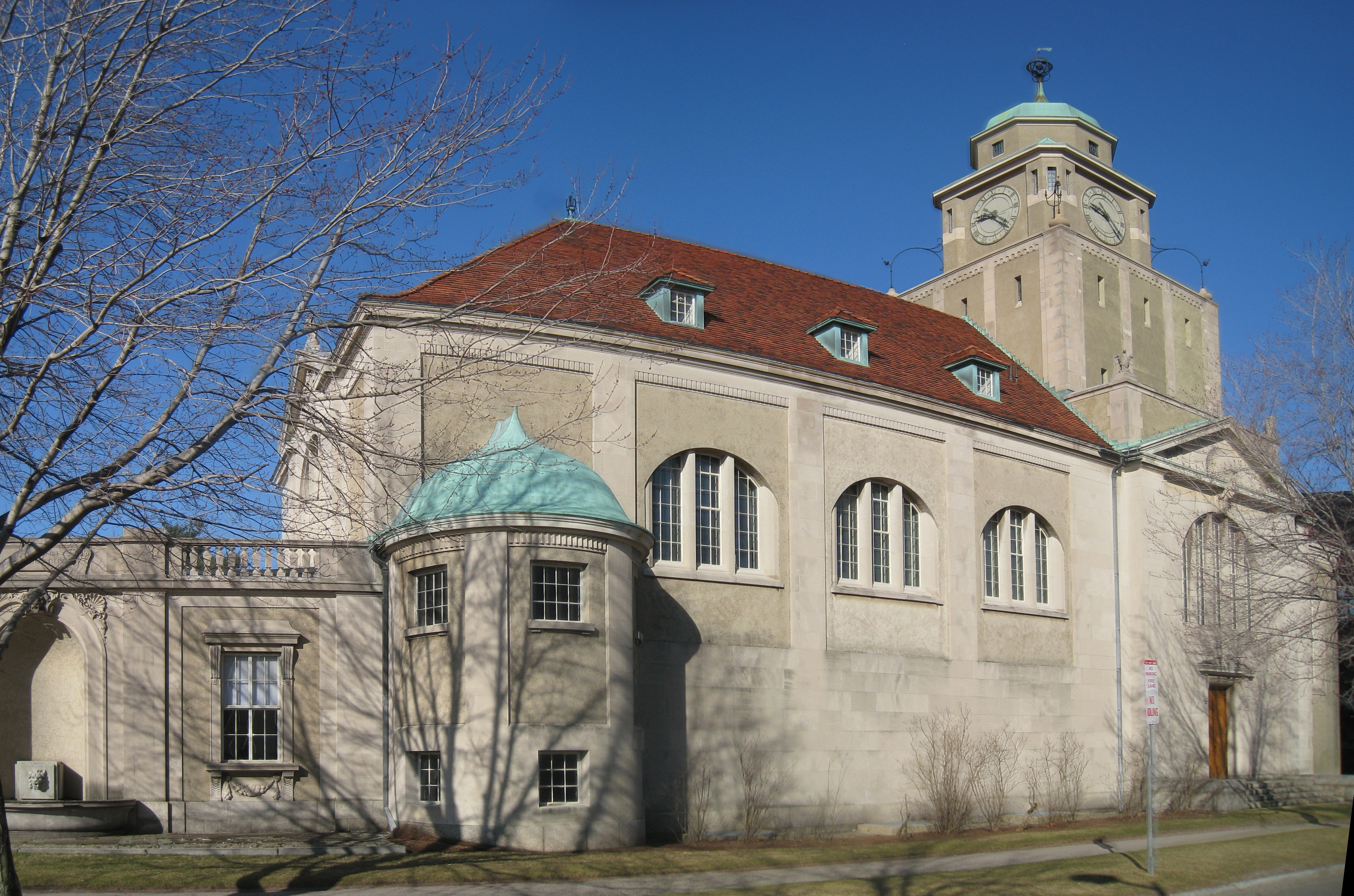 Adolphus Busch Hall, Harvard University, 29 Kirkland Street, Cambridge, Massachusetts, USA. Exterior view from Divinity Avenue.